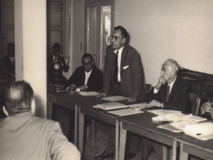 Ancel Keys (at the center, standing), Paul Dudley White (at his left), and Flaminio Fidanza (at his right), during a press conference held in Gioia Tauro, Calabria, Italy, 1960